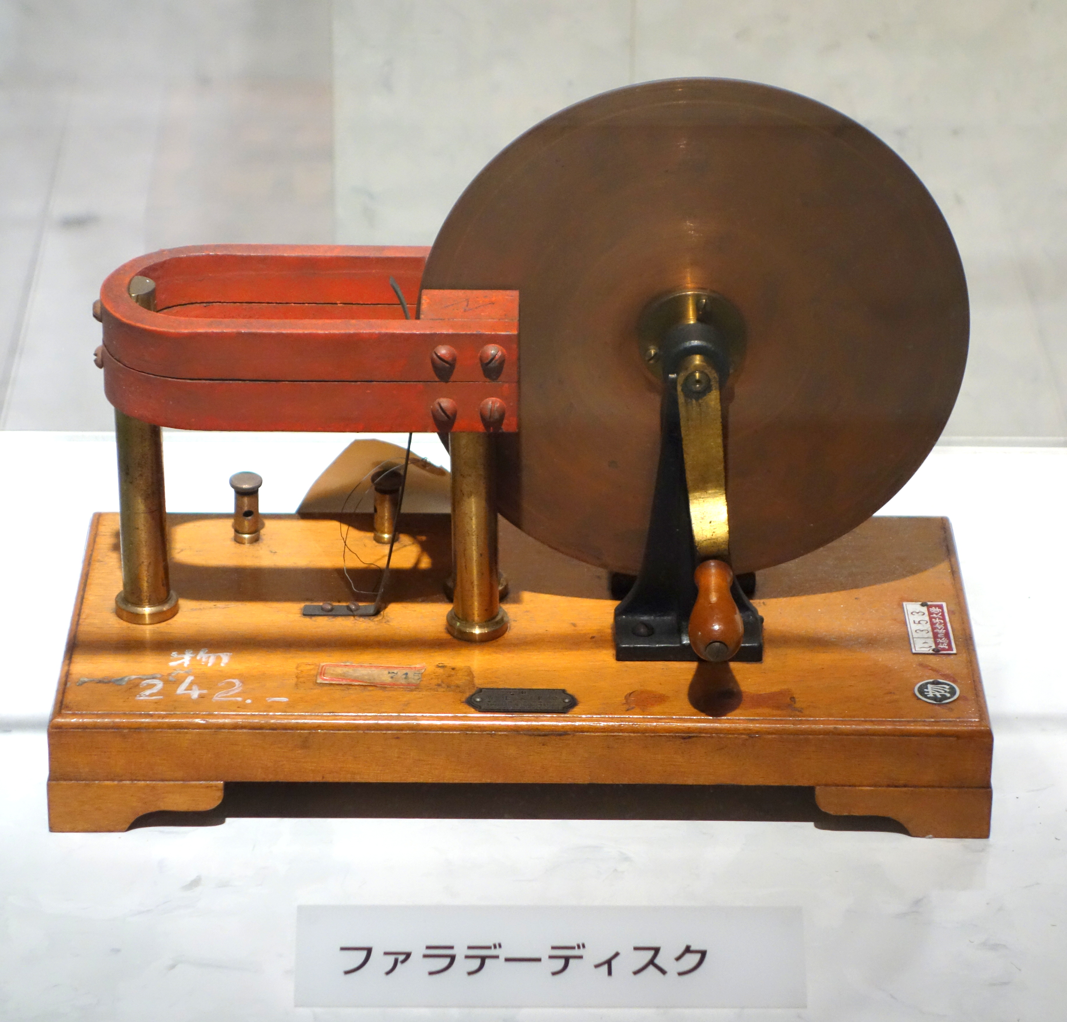 Model of Faraday's disk, the first electric generator, invented by British scientist Michael Faraday in 1831. It consists of a copper disk between the poles of a horseshoe magnet. When the disk is turned with the crank, a current of electrons flows radially from the center of the disk to the rim, due to Faraday's law of induction. This is picked up by a springy contact pressed against the rim of the disk. The current flows through an external circuit and returns to the center of the disk through the axle. Exhibit in the National Museum of Nature and Science, Tokyo, Japan.